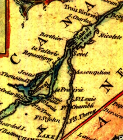 This is a detail from the source map, which is entitled: A new chart of the River St. Lawrence from the Island of Anticosti to Lake Ontario This detail shows the lower Richelieu River valley and the Saint Lawrence River valley between Montreal and Trois-Rivières, including many locations relevant to the 1776 Battle of Trois-Rivières.